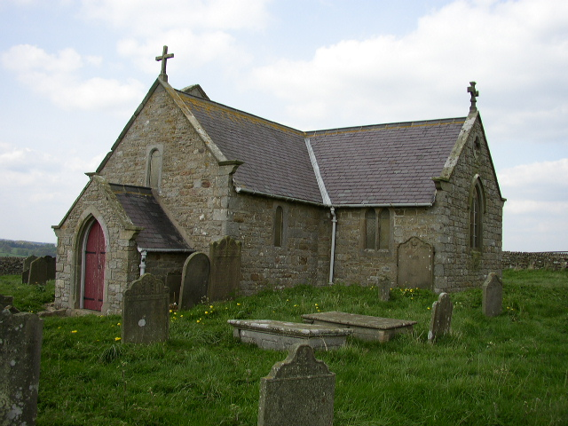 St Andrew's Church, Shotley. St Andrews is cruciform with a bell-cote, Built in 1769 on the site of a much older church and remodelled in 1892. It stands 960 feet (293 metres) above sea level on Grey Mare Hill. The vicarage was at Unthank and is now two cottages.